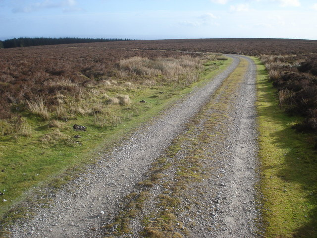 Track on Black Mixen View south-west with the edge of the Radnor Forest to the left. The top of this hill is just a large flat heather and bilberry moor.